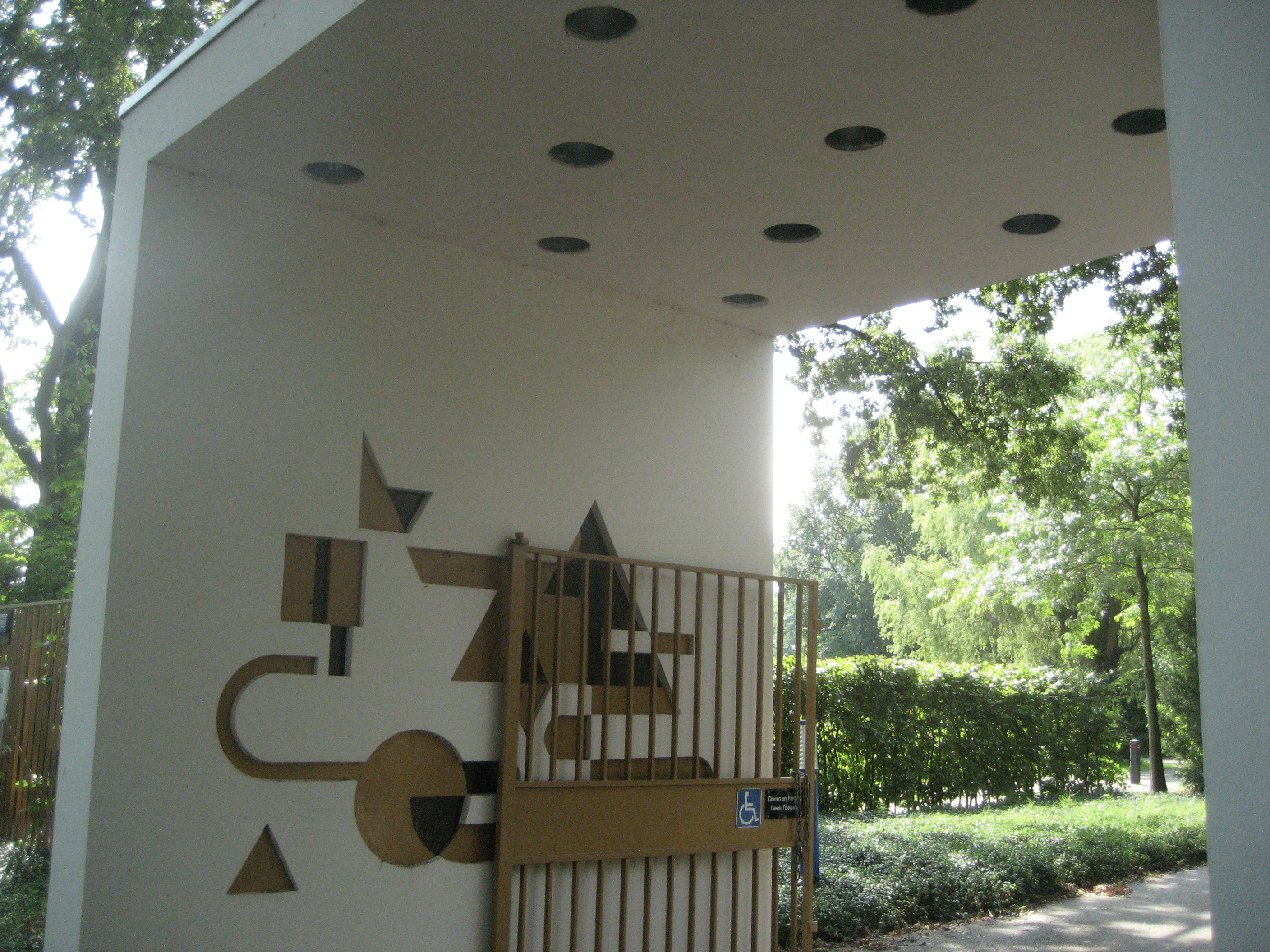 Entrance Rosenburgh Cemetery, Rosenburghlaan, Voorschoten (the Netherlands). Design by Josje Smit